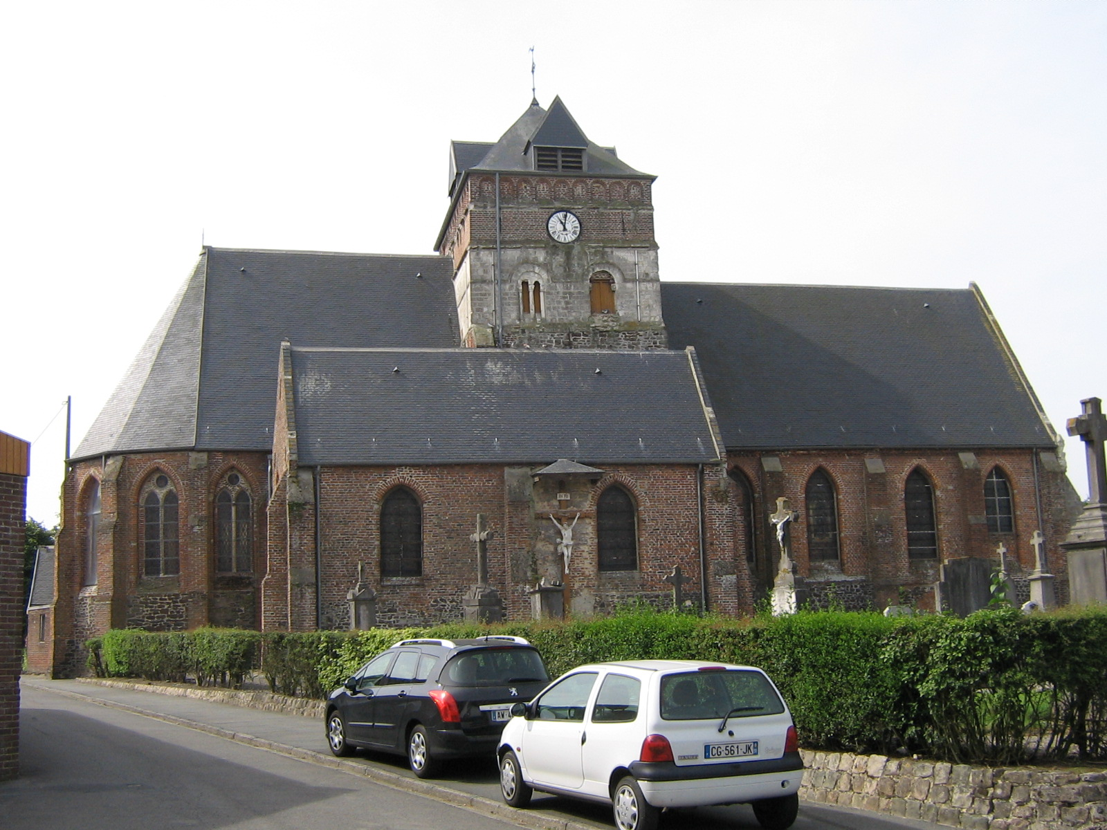 Church of Borre (France).